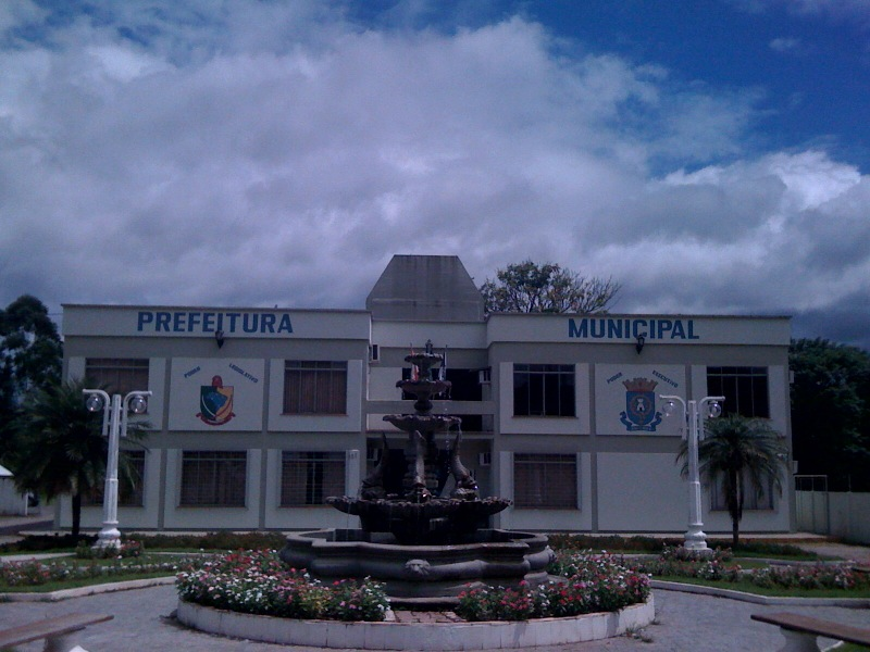 Photo of Ascurra City Hall